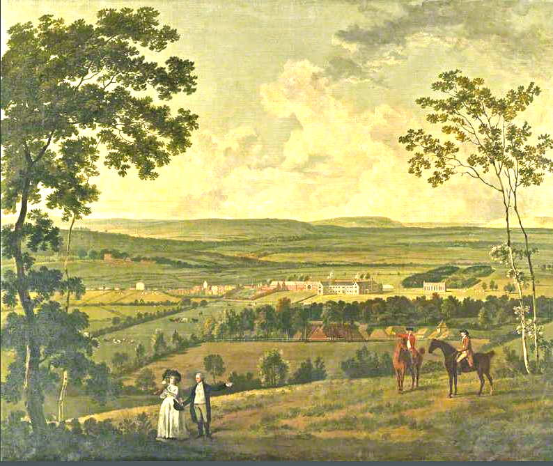 Robert Thistlethwaite and his family at Southwick Park